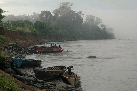 Madre de Dios, marina in Boca Manu.